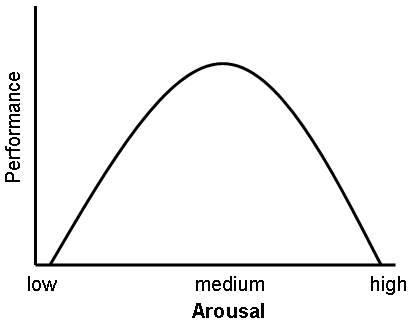 Graph of Yerkes-Dodson Law principle. Author:User:Vaughan. Source: [1] Permission: Graph was created for Wikipedia and free of copyright - Vaughan 09:43, 26 Oct 2004 (UTC)